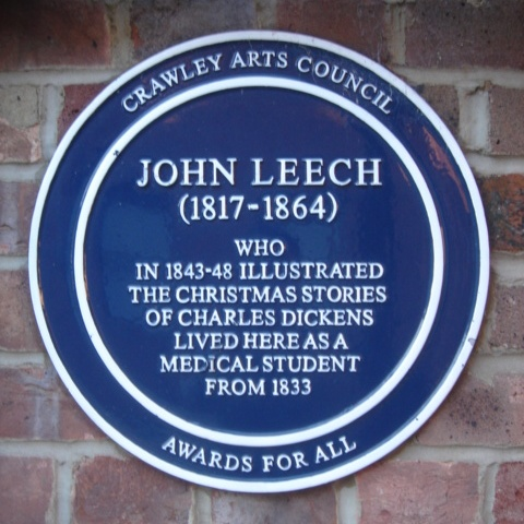 Crawley Arts Council plaque commemorating John Leech, the 19th-century caricaturist, on the side of Tree House, High Street, Crawley, West Sussex, England. Leech lived there for several years from 1833.